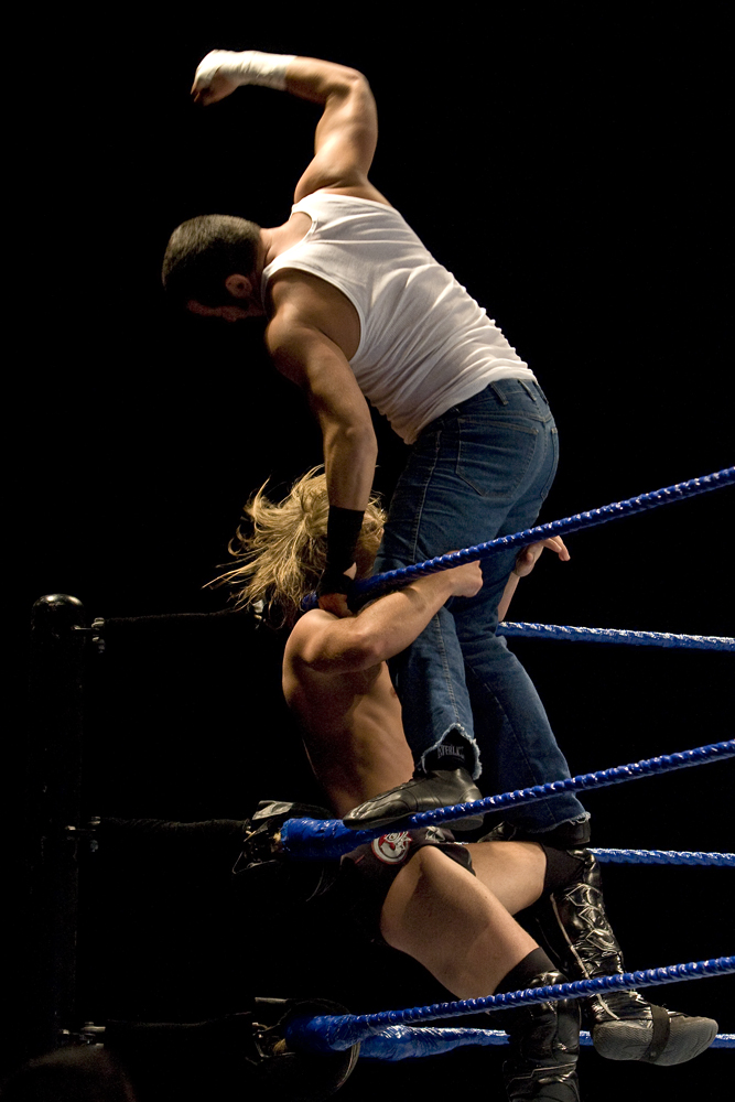 Wrestler Brian Kendrick and Jimmy Wang Yang (above) in Pavilhão Atlântico arena in Lisbon, Portugal